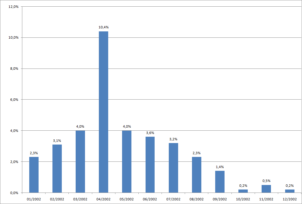 A chart showing the percentage of inflation in Argentina by month during 2002 (the year when the Argentine peso was left to float and depreciated by 75% against the U.S. dollar).